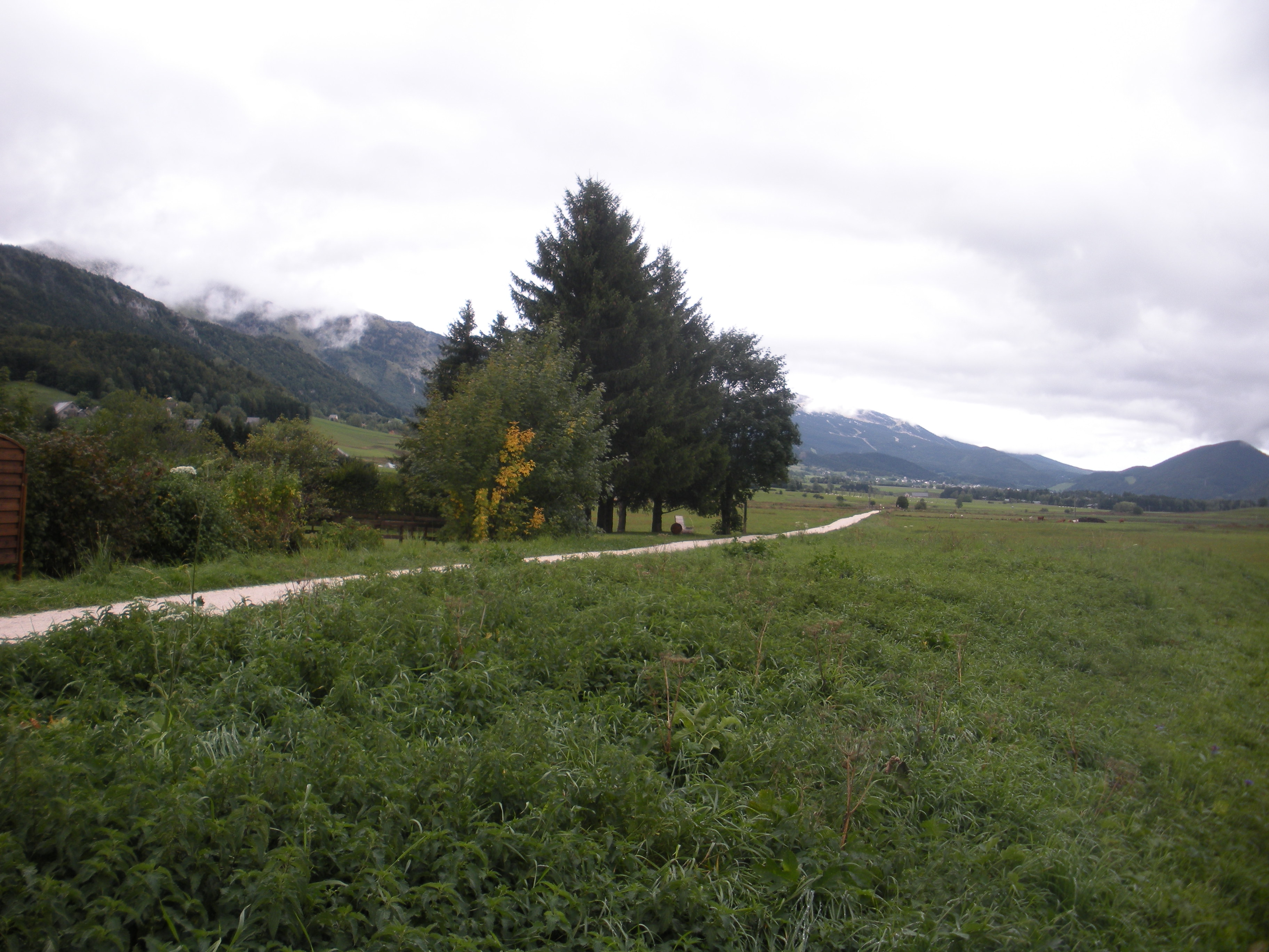 Valley with mounains. In foreground a path. Fore In background mountains.